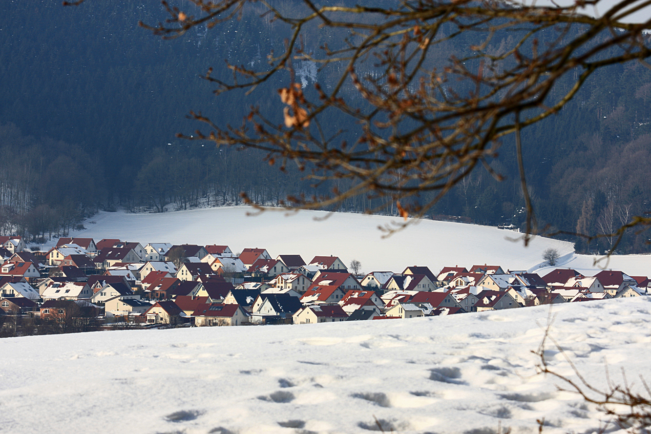 Blick vom Ohrberg auf das Neubaugebiet in Klein Berkel